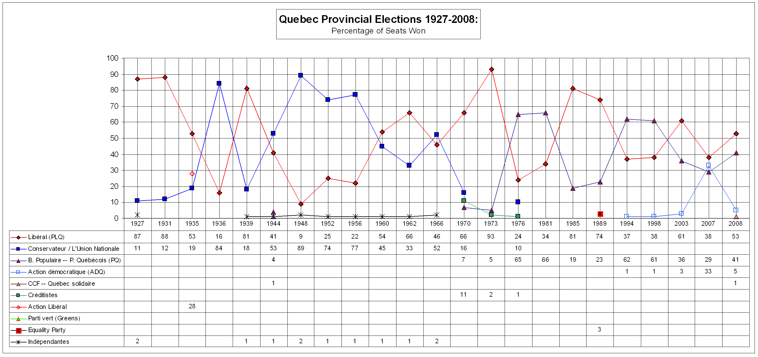 Québec general election results from 1927 to 2008, shown as a percentage of total seats in the National Assembly won by each party (or independent MNA). Français cadien: Résultats des élections generales en Québec de 1927 a 2008.